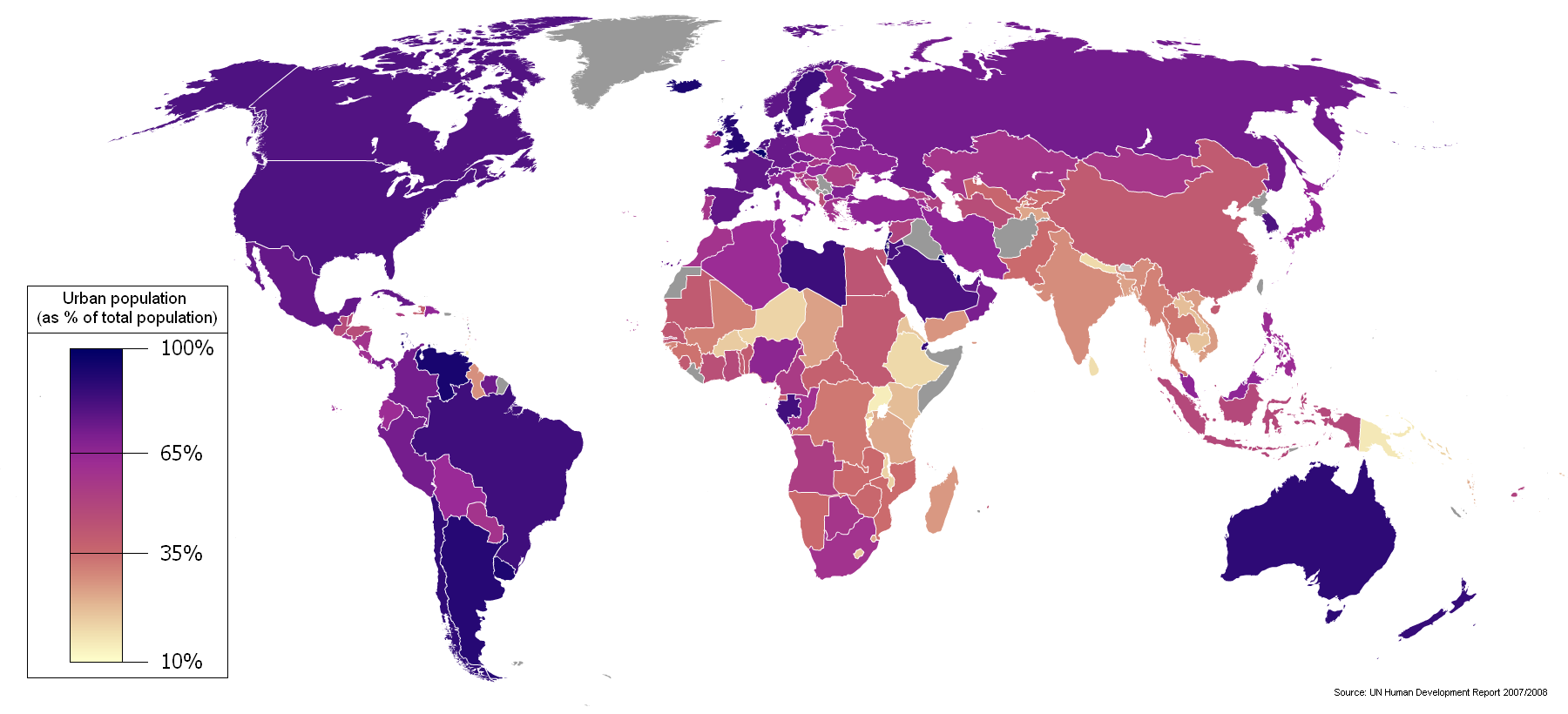 World map showing the percentage of citizens living in an urban environment in 2005